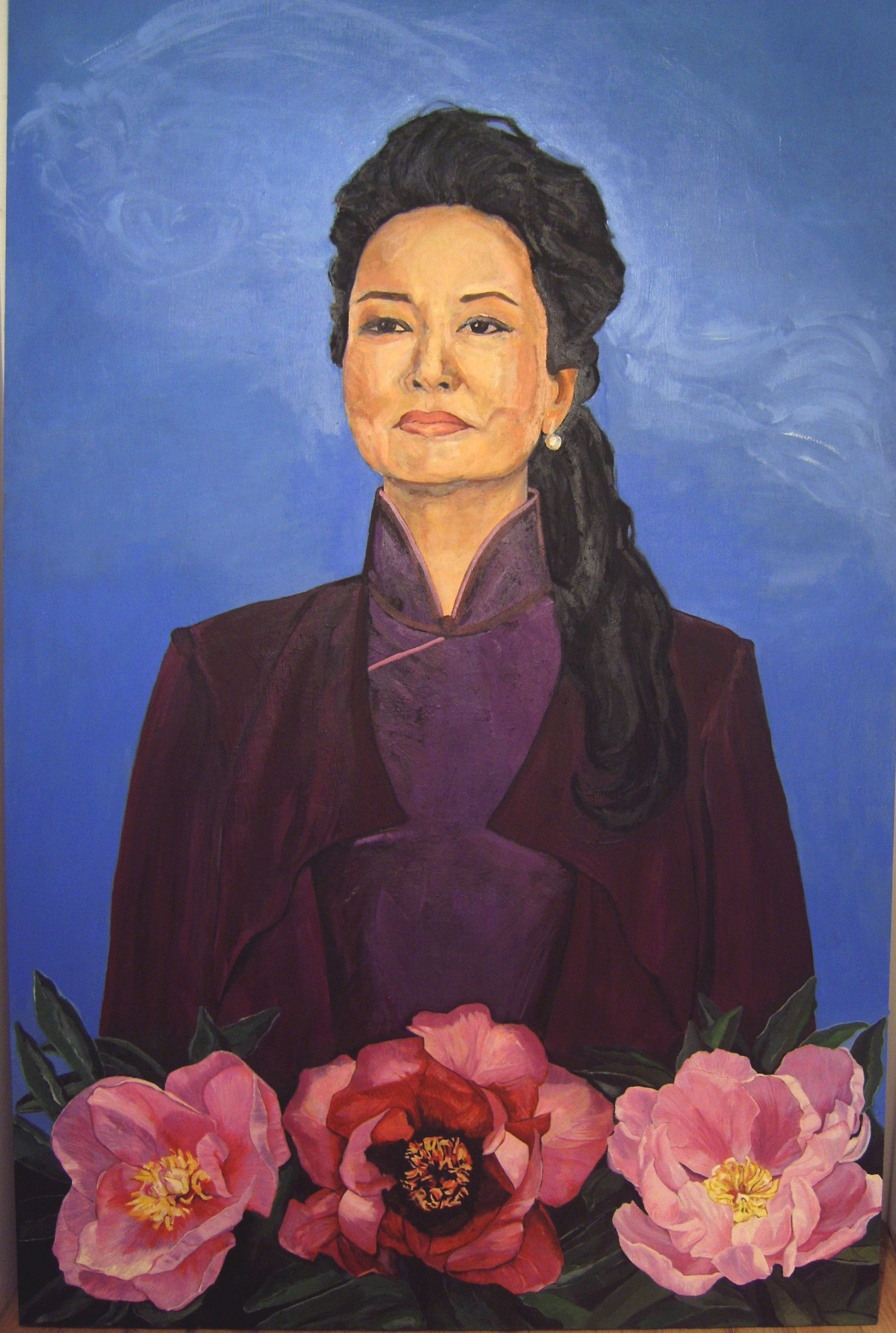 Portrait of Mainland Chinese First Lady: Mrs. Peng Liyuan by Valentina Basset